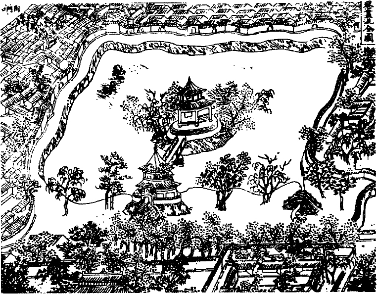 A map of Yanhuachi drawn in Qing Dynasty